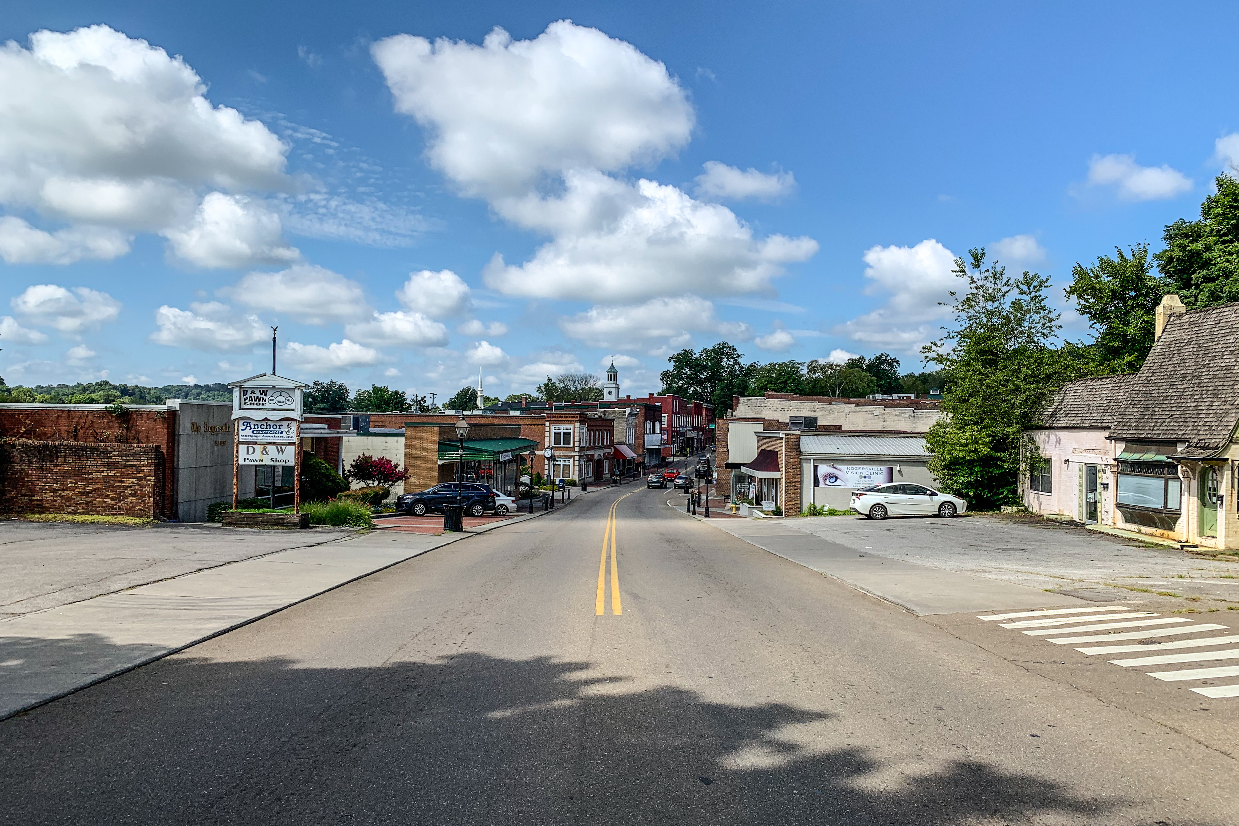 Downtown Rogersville, Tennessee, United States, as seen from Main Street East.